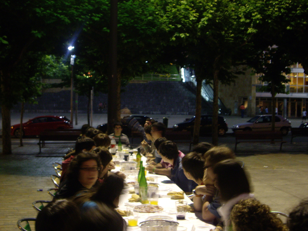 Popular meal for young people in Eibar, Basque Country.